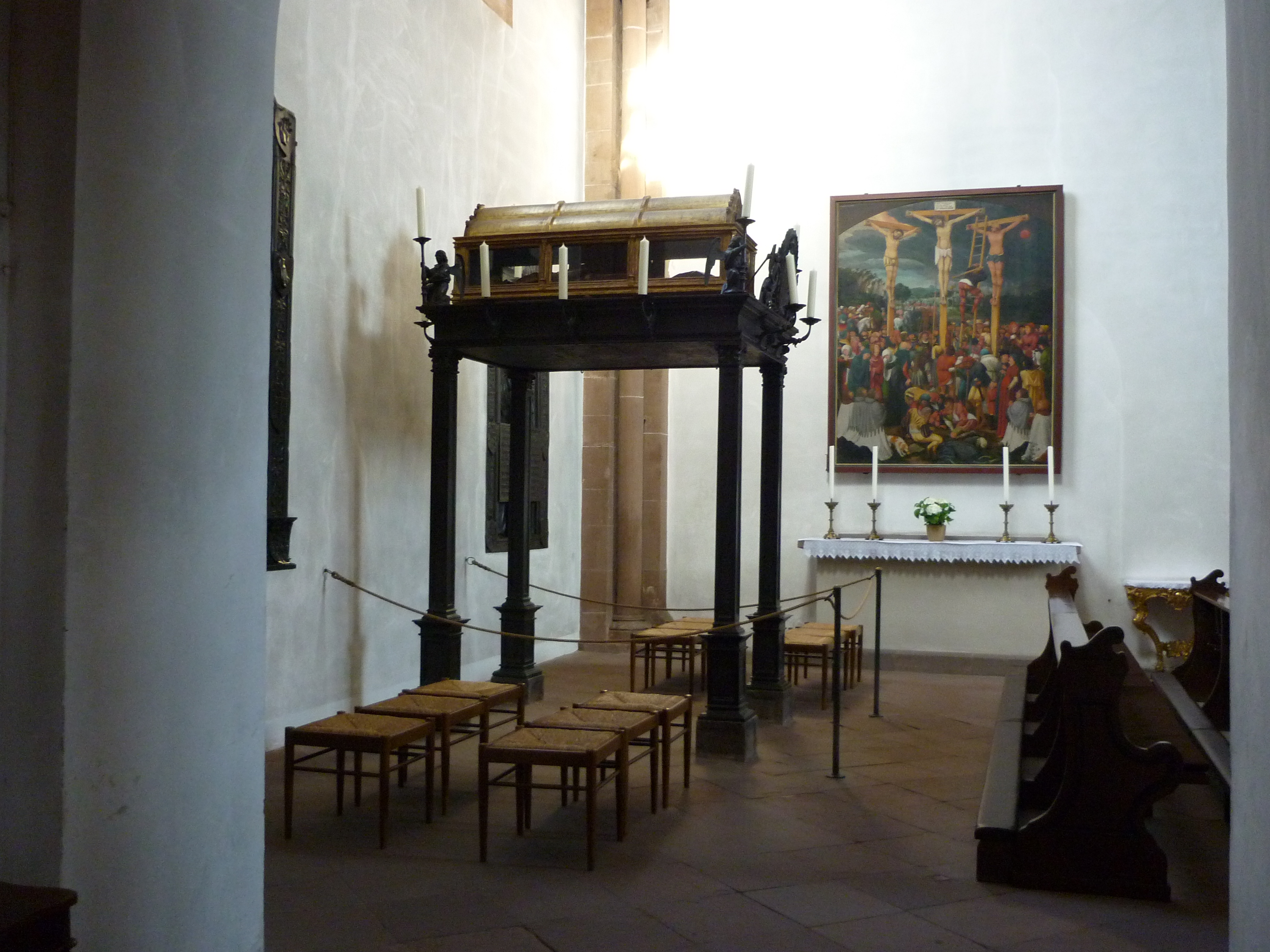 Coffin of Margarethe on the baldachin of Hans Vischer, Stiftskirche, Aschaffenburg, Germany